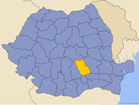 Location of Prahova County in Romania.